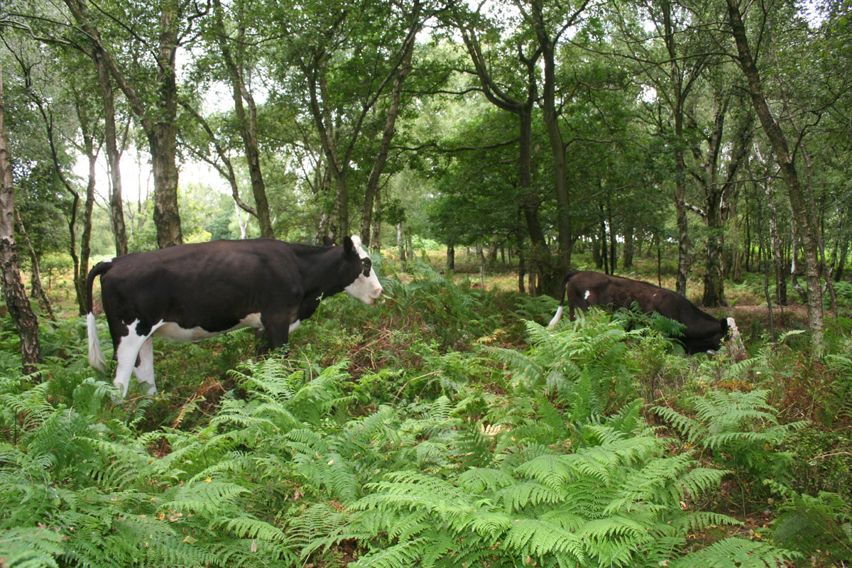 Cows grazing in birch woods at Bickerton Hill, Cheshire (SJ 501 527)